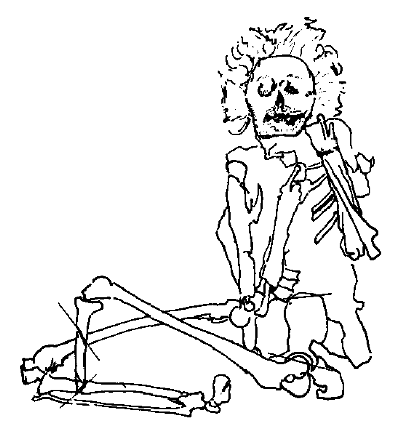 Bog Body Mann von Neu Versen, also known as Red Franz. Drawing of 1911 showing the position when found. The short straigt lines are marking the injuries of the corpse by the peat cutters shovel.